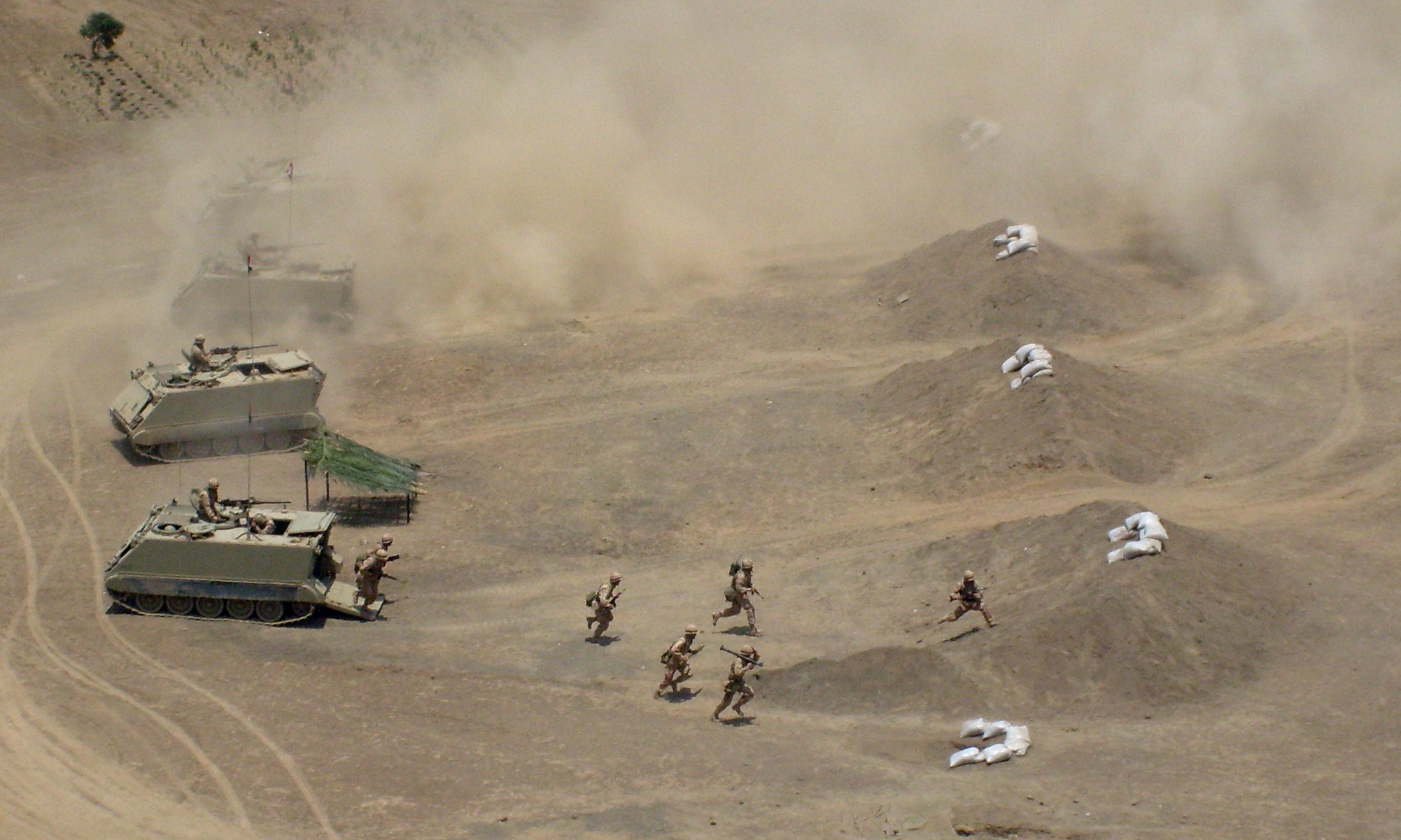 Peruvian Infantry in the Cruz de Hueso Exercise, 2007 (Photographer:Cloudaoc)